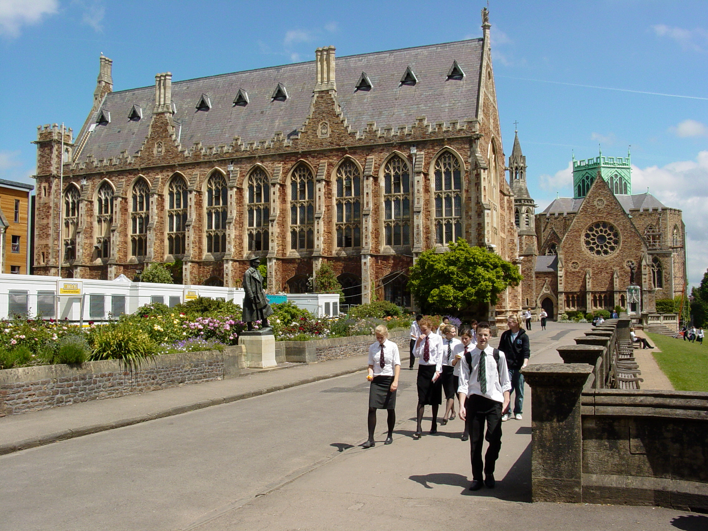 Public school and students, Bristol, England.